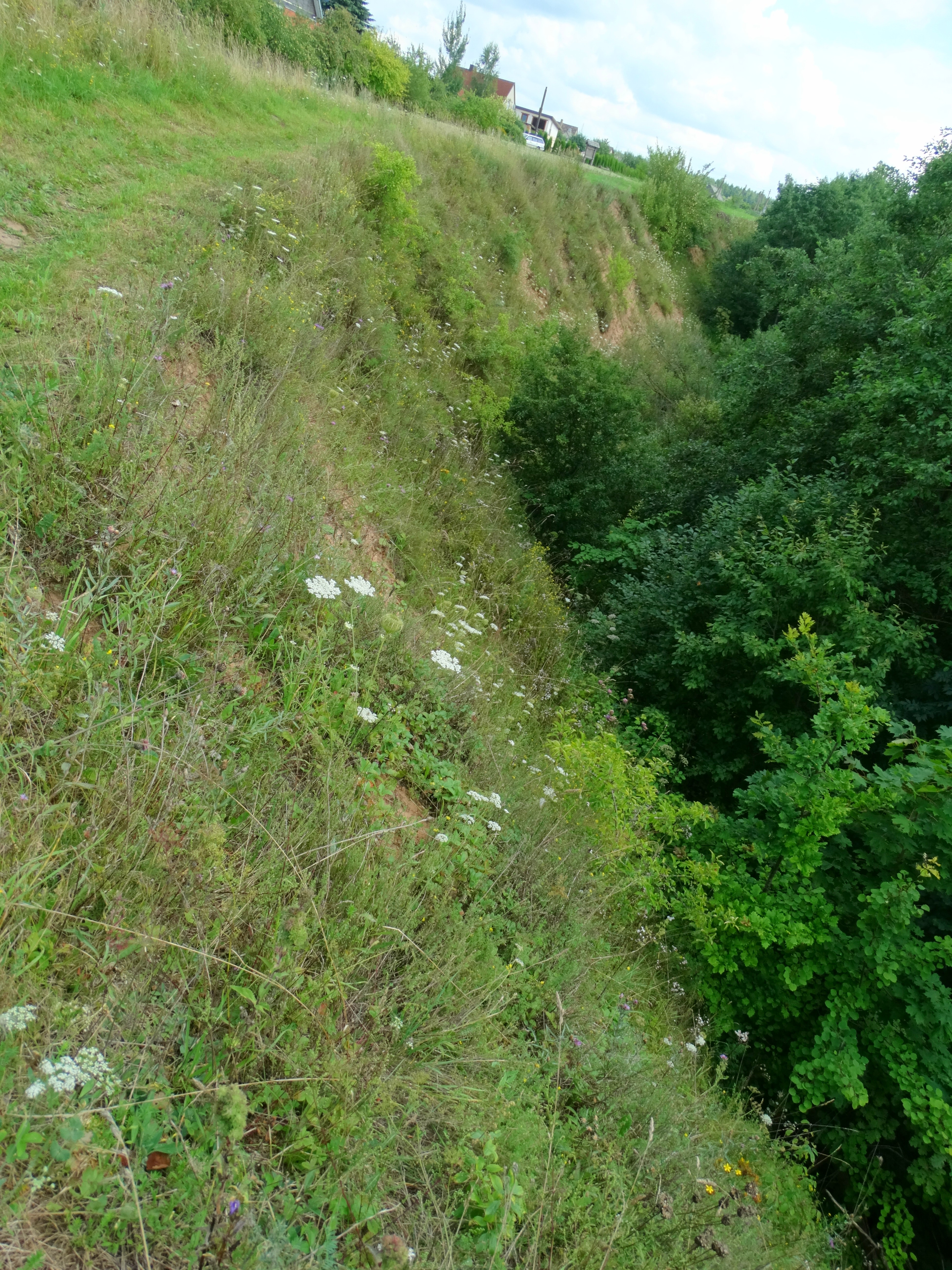 Raudonskardis outcrop, Papilė, Akmenė district, Lithuania